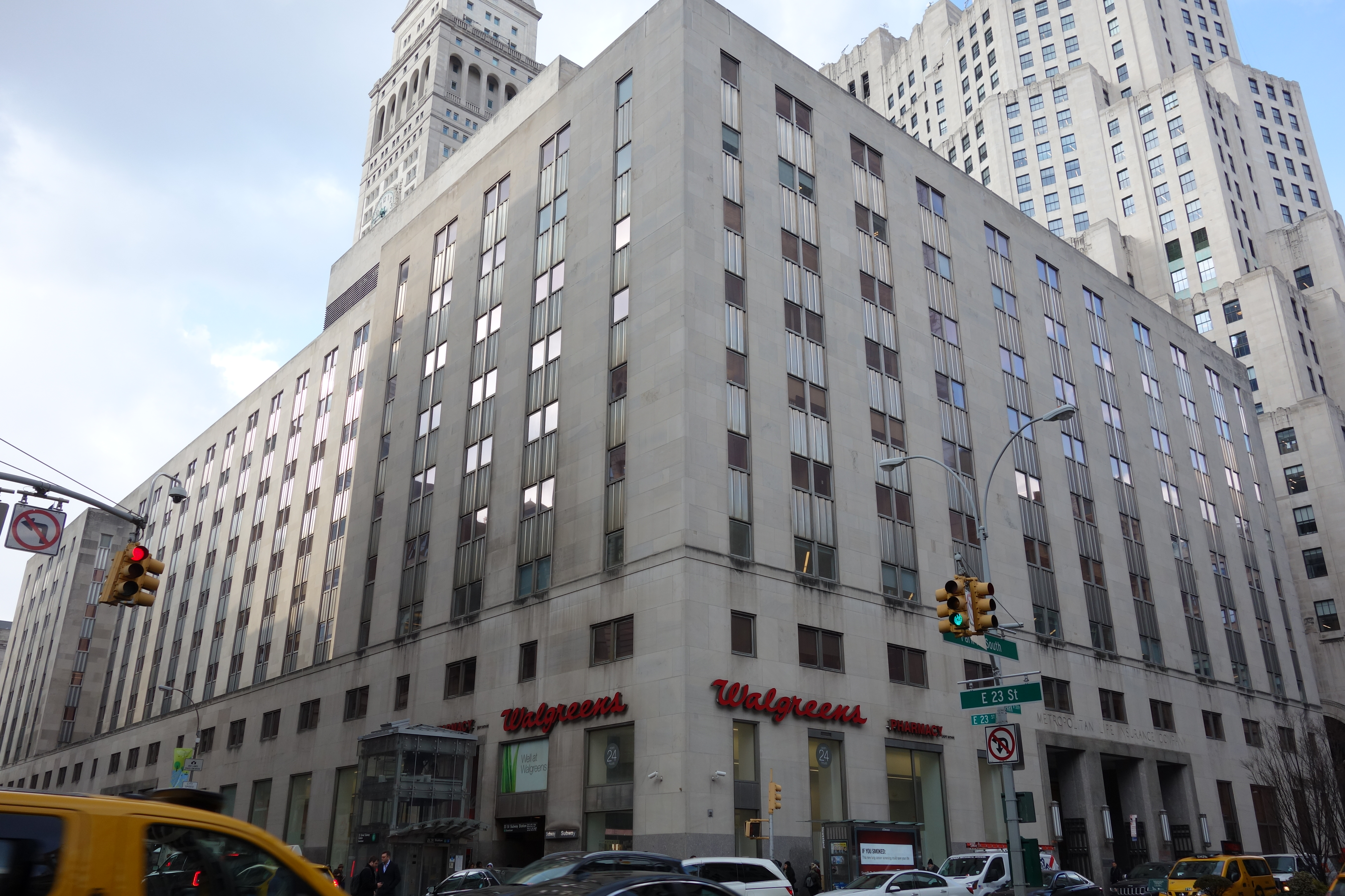 The rear side of the Metropolitan Life Tower, at 23rd Street and Park Avenue South in Gramercy Park / Flatiron District, Manhattan.